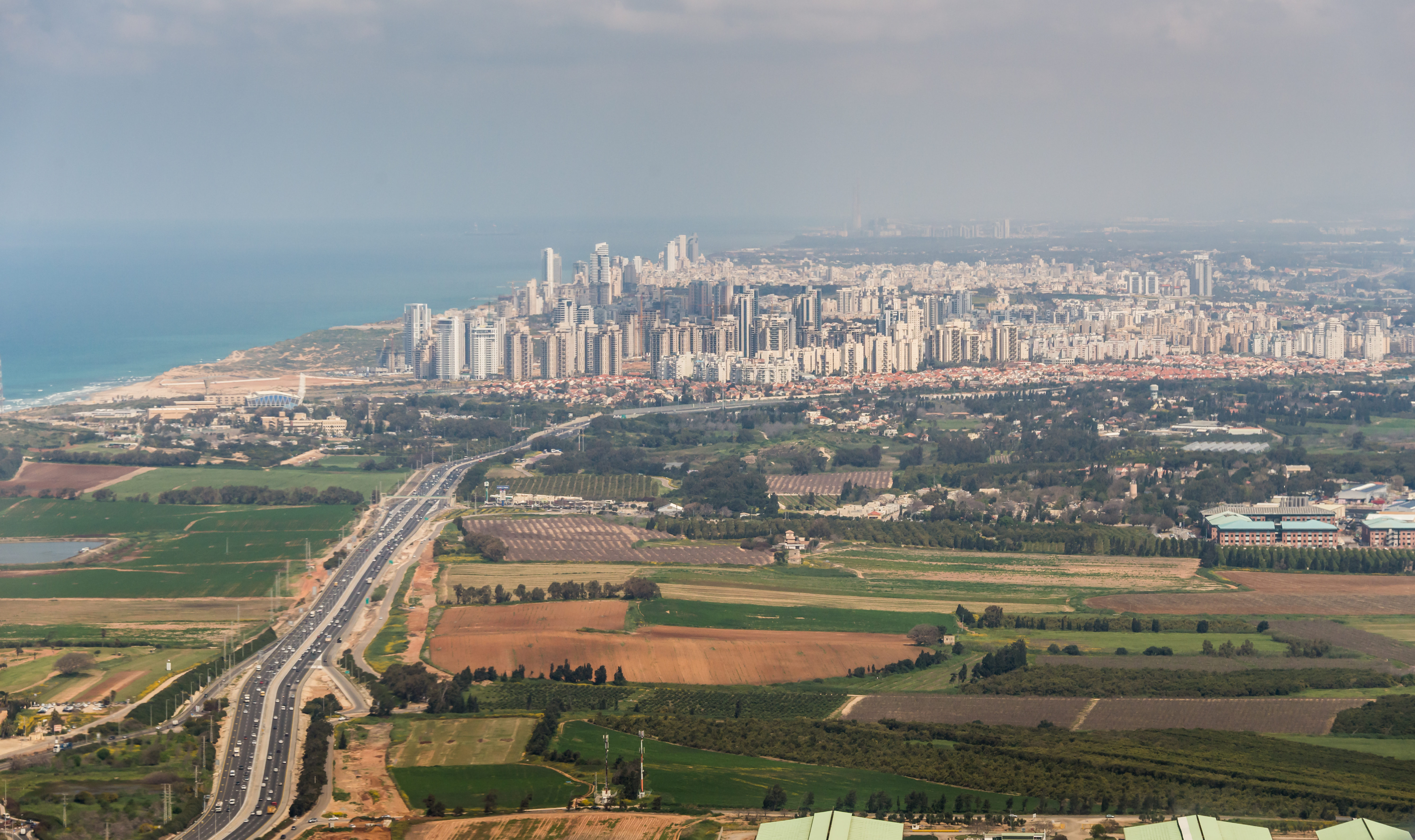 aerial photography, Kvish HaHof, Netanya